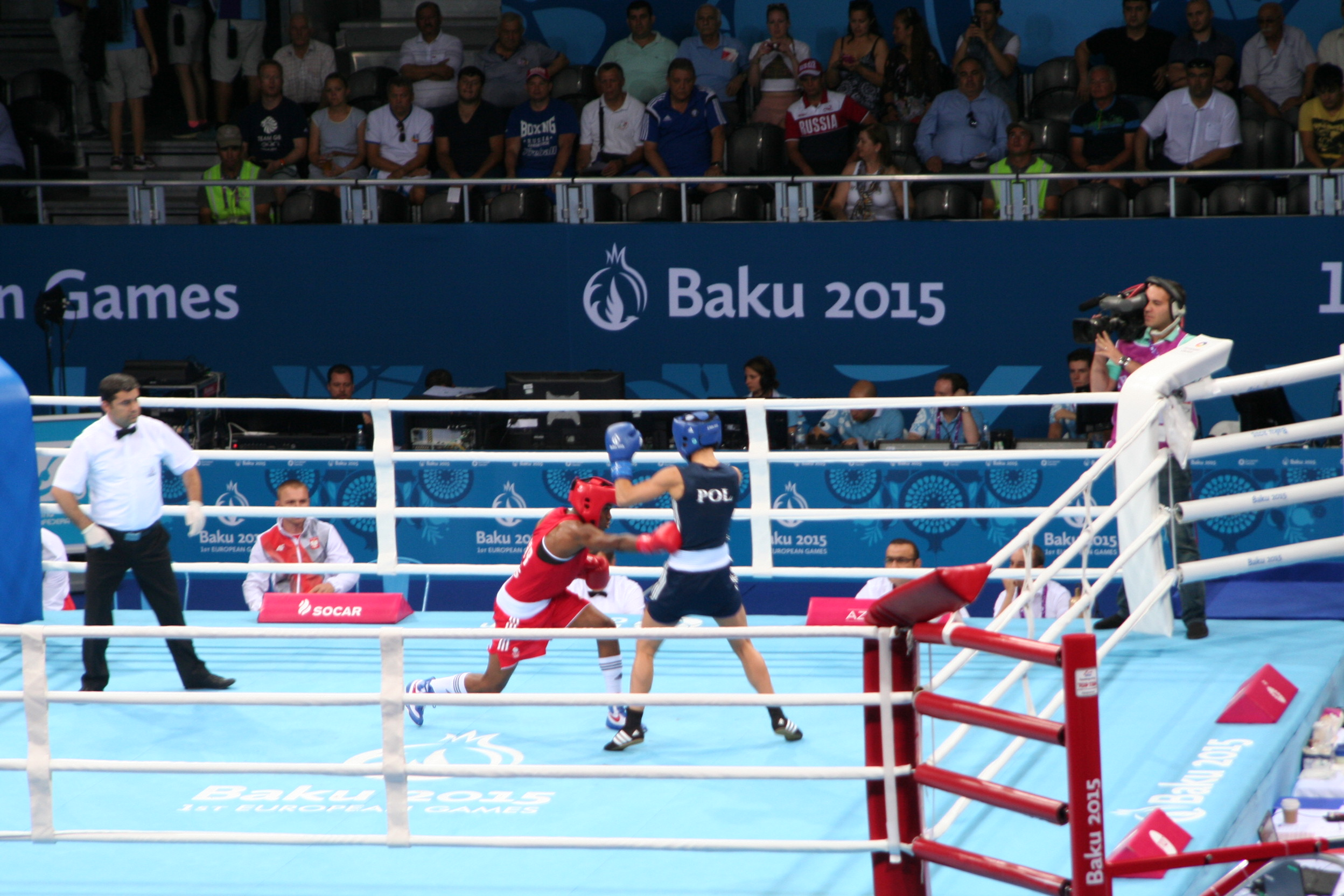 Nicola Adams vs Sandra Drabik - 2015 European Games - Final